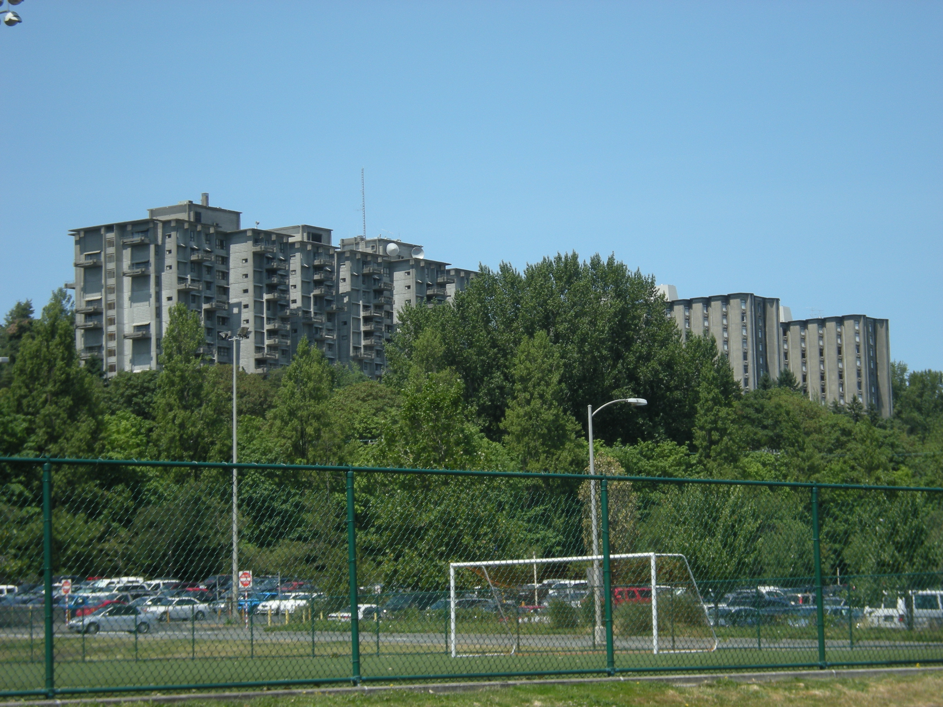 Brutalist-style dormitories (MacMahon and Haggett Halls) on the west side of the main University of Washington campus, Seattle, Washington.